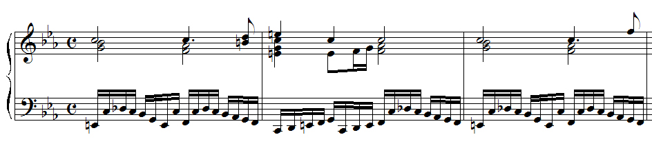 Bars 150-152 from Beethoven's Sonata N.32